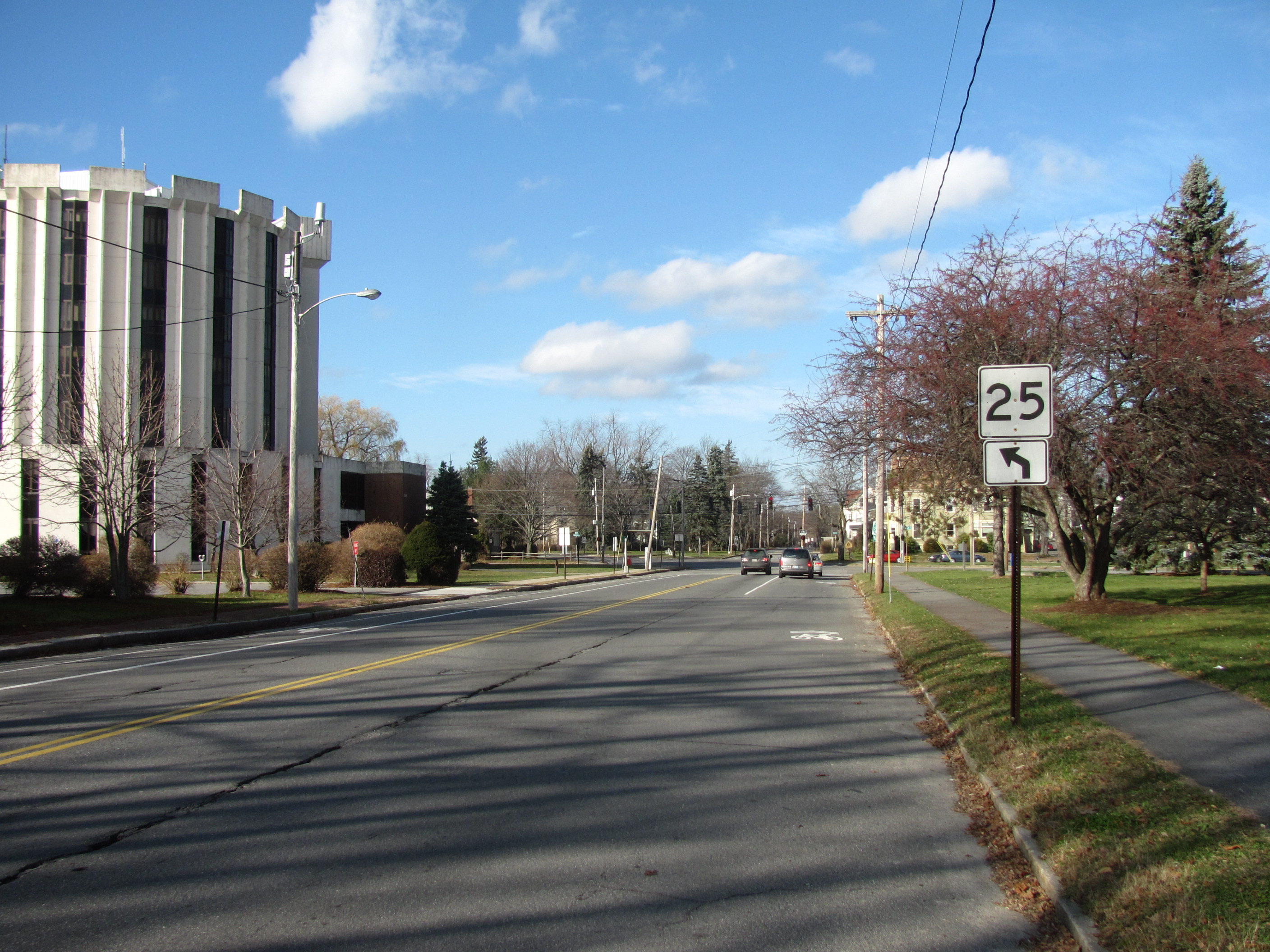 Route 25 westbound (Deering Avenue), Portland Maine, with the University of Maine School of Law's library on the left.